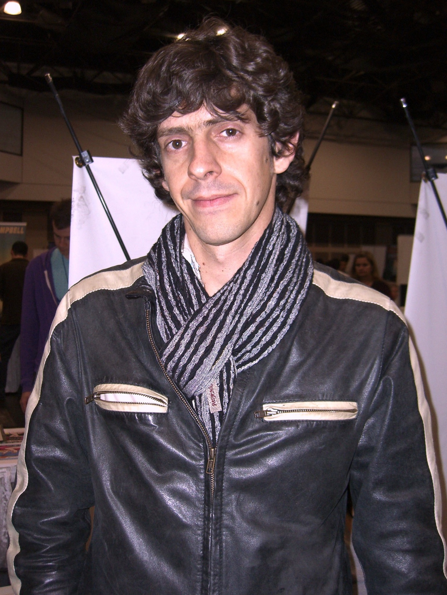 Comic book creator Fabio Moon, at the New York Comic Convention in Manhattan, October 10, 2010. Photo by Luigi Novi. This photo may be used, modified and published for any purpose, only if a easily visible credit to the photographer is placed near the photo in each instance in which it is used. (See licensing information below.) Publication of this photo without this proper attribution constitute copyright infringement. For more information on my photos, you can contact me here.